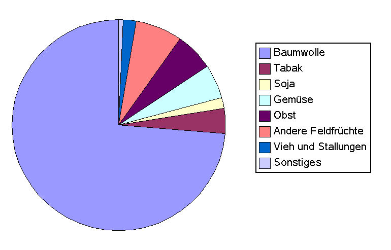 DDT usage of american agriculture in 1963 in Mio pounds active ingredient: Cotton = 23.6, Tobacco = 1.2, Soybeans = 0.5, Vegetables = 1.7, Fruits = 1.9, Others = 2.3, (Crops total = 31.2), Livestock incl. buildings = 0.6, Others = 0.2, (DDT total = 32.0); according to U.S. Department of Agriculture, Economic Research Service: DDT used in Farm Production, Agricultural Economic Report no. 158, April 1969